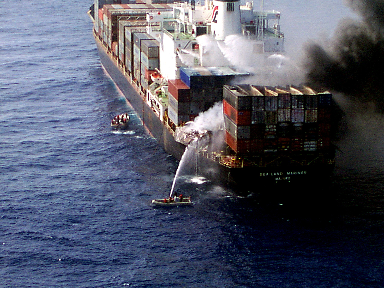 Sailors from the U.S. Navy amphibious assault ship USS Wasp (LHD 1) aim a fire hose at burning cargo containers aboard the merchant cargo vessel Sea Land Mariner in the Mediterranean Sea on April 18, 1998. Search and rescue crew members, helicopters and an 18-person fire-fighting team from the Wasp responded to an emergency distress call from the merchant vessel in the Mediterranean Sea, approximately 85 miles west of Crete. A U.S. Navy CH-46 Sea Knight helicopter air-lifted two of the merchant vessel crew members to the Wasp for medical treatment of injuries caused by the initial explosion.